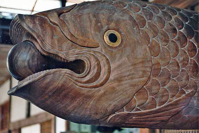 Gyoban 魚板 ("fish board") wooden board in the shape of a fish. Manpuku-ji, Kyoto, Japan